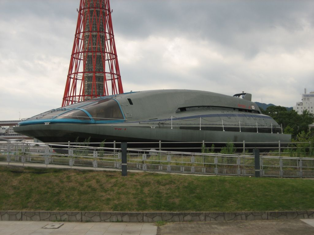 Mitsubishi experimental boat Yamato 1 with magnetohydrodynamic drive, now on display in front of the Maritime Museum in Kobe, Japan